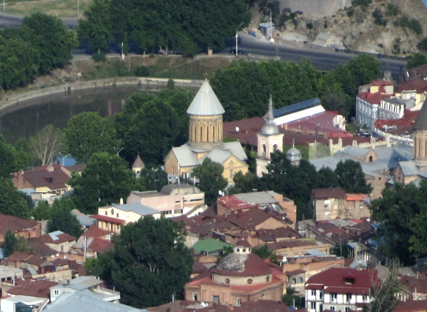 Tbilisi Sioni Cathedral. View from Mt. Mtatsminda